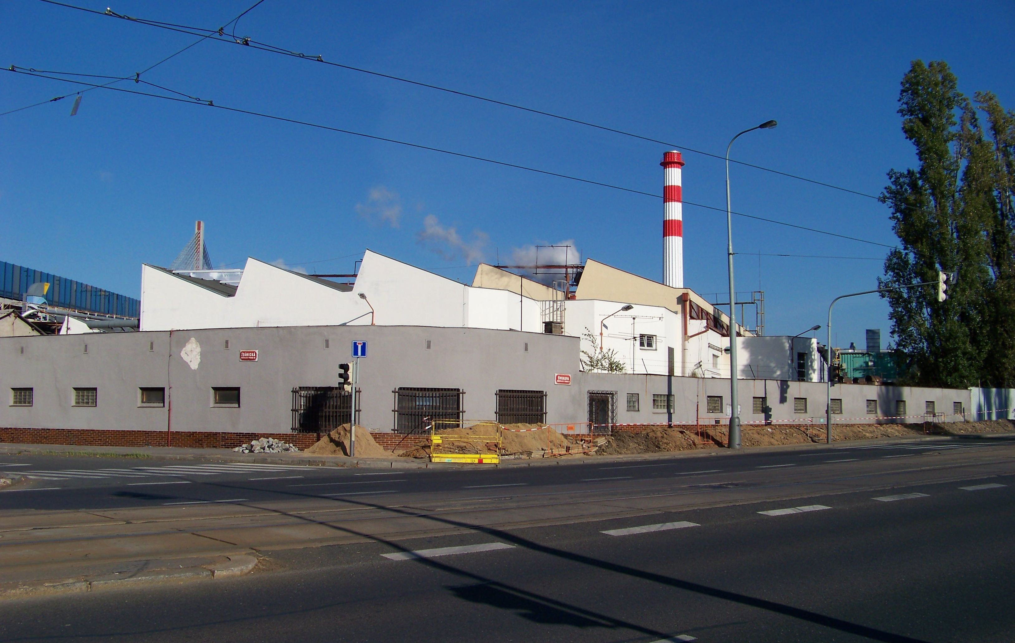 Prague-Záběhlice, the Czech Republic. Švehlova street, Mitas Praha factory. - OpenStreetMap(Info)